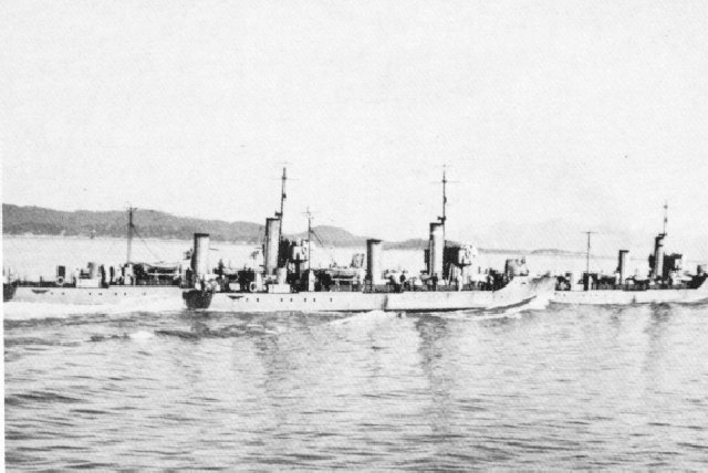 The three Norwegian Trygg class torpedo boats sometime before WWII